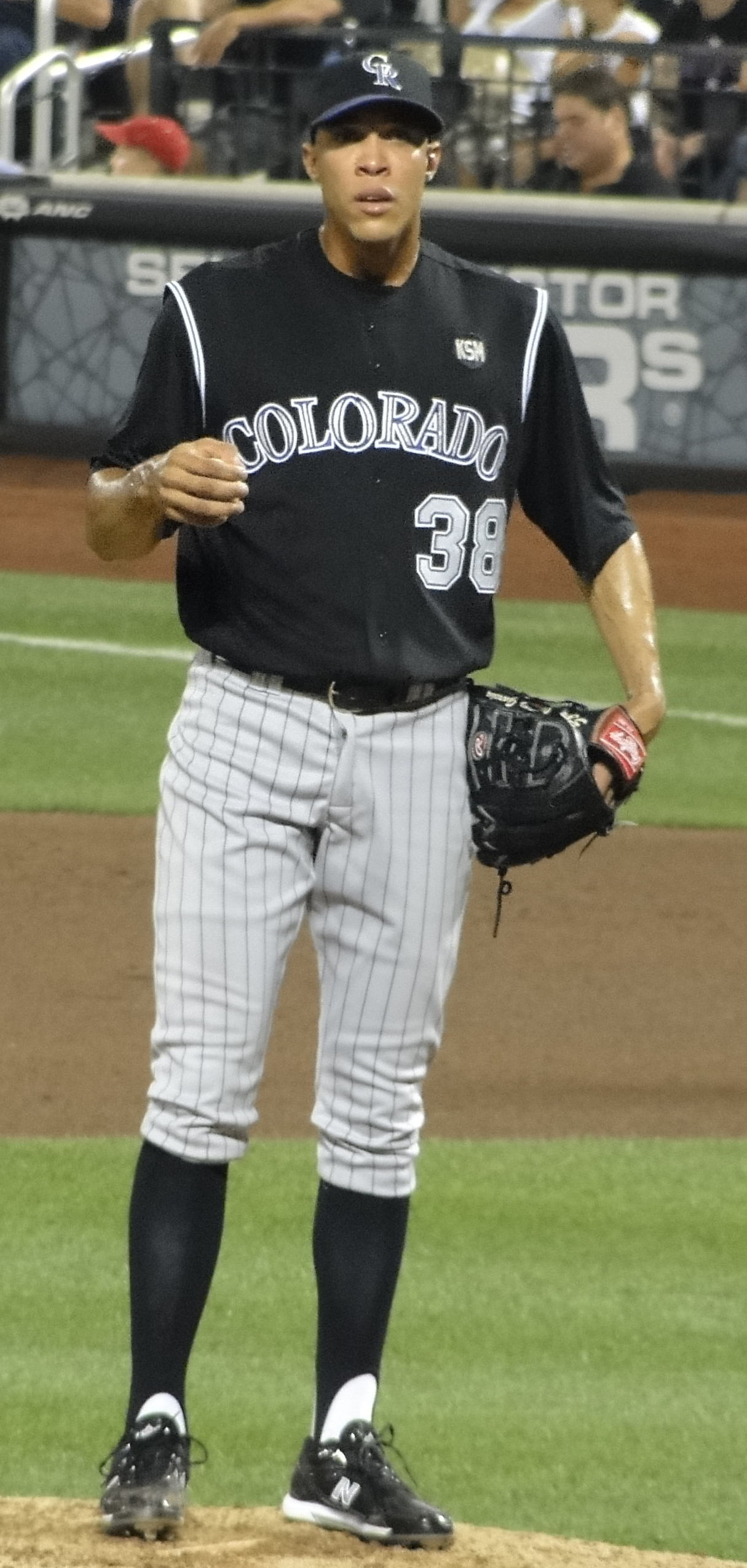 Ubaldo Jiménez